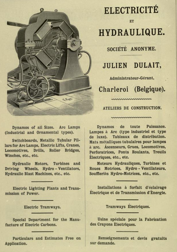 Advert for Société anonyme Électricité et Hydraulique à Charleroi (Julien Dulait) from Electric railways and tramways, their construction and operation. A practical handbook (1897) (Philip Dawson)